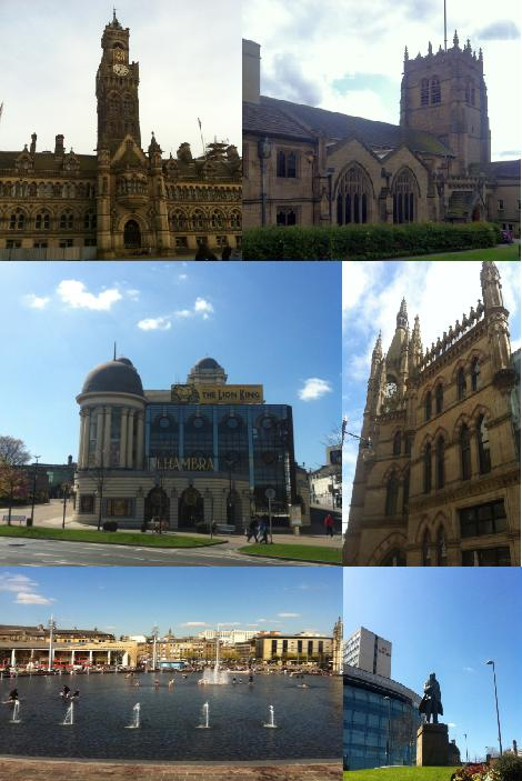 Bradford City Hall, Bradford Cathedral,The Alhambra Theatre, The Wool Exchange, City Park, The National Media Museum.